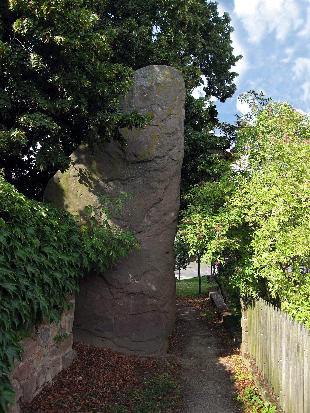 The Menhir of Langenstein, a village in the area of Kirchhain.